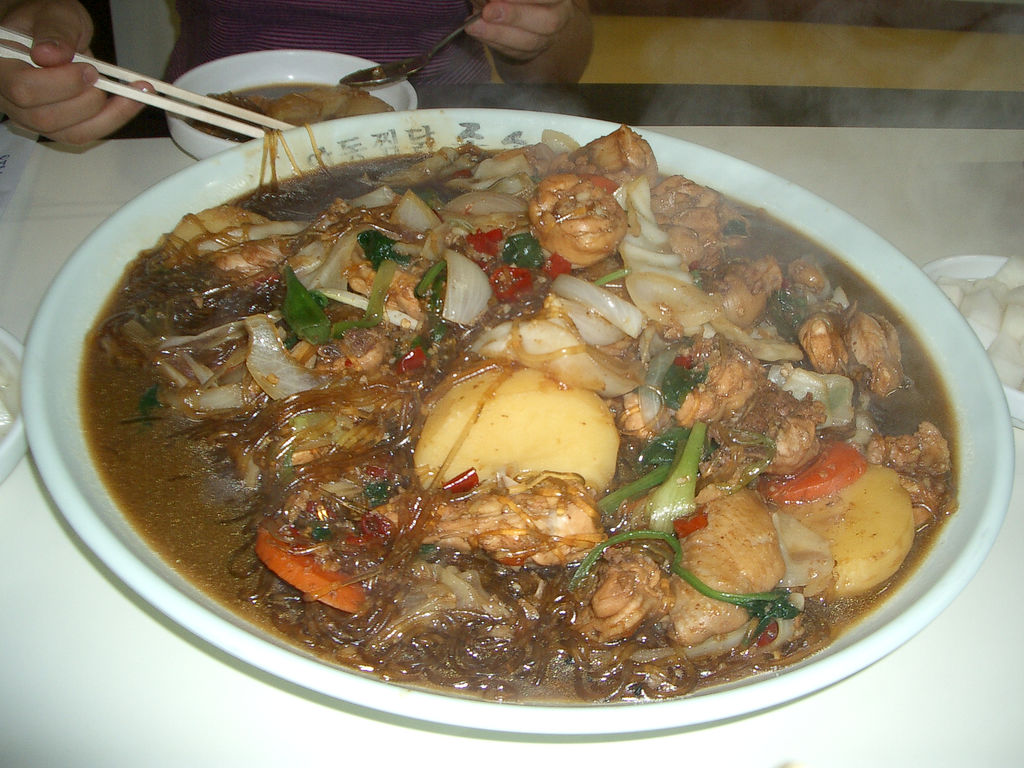 Chicken-jjim (찜닭) in Andong, ROK - July 2005